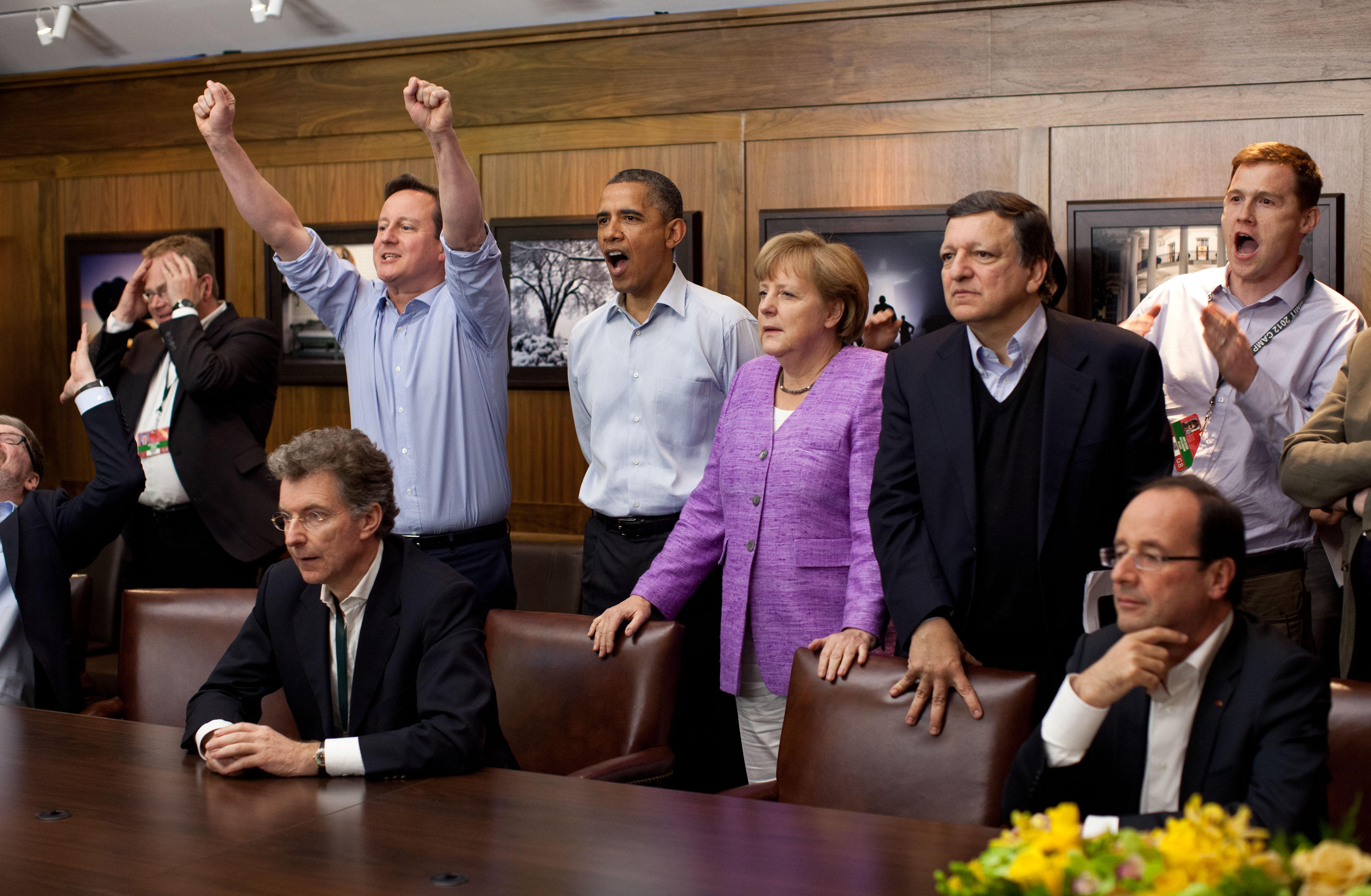 Prime Minister David Cameron of the United Kingdom, President Barack Obama, Chancellor Angela Merkel of Germany, José Manuel Barroso, President of the European Commission, President François Hollande of France and others watch the overtime shootout of the Chelsea vs. Bayern Munich Champions League final, in the Laurel Cabin conference room during the G8 Summit at Camp David, Md., May 19, 2012. (Official White House Photo by Pete Souza)